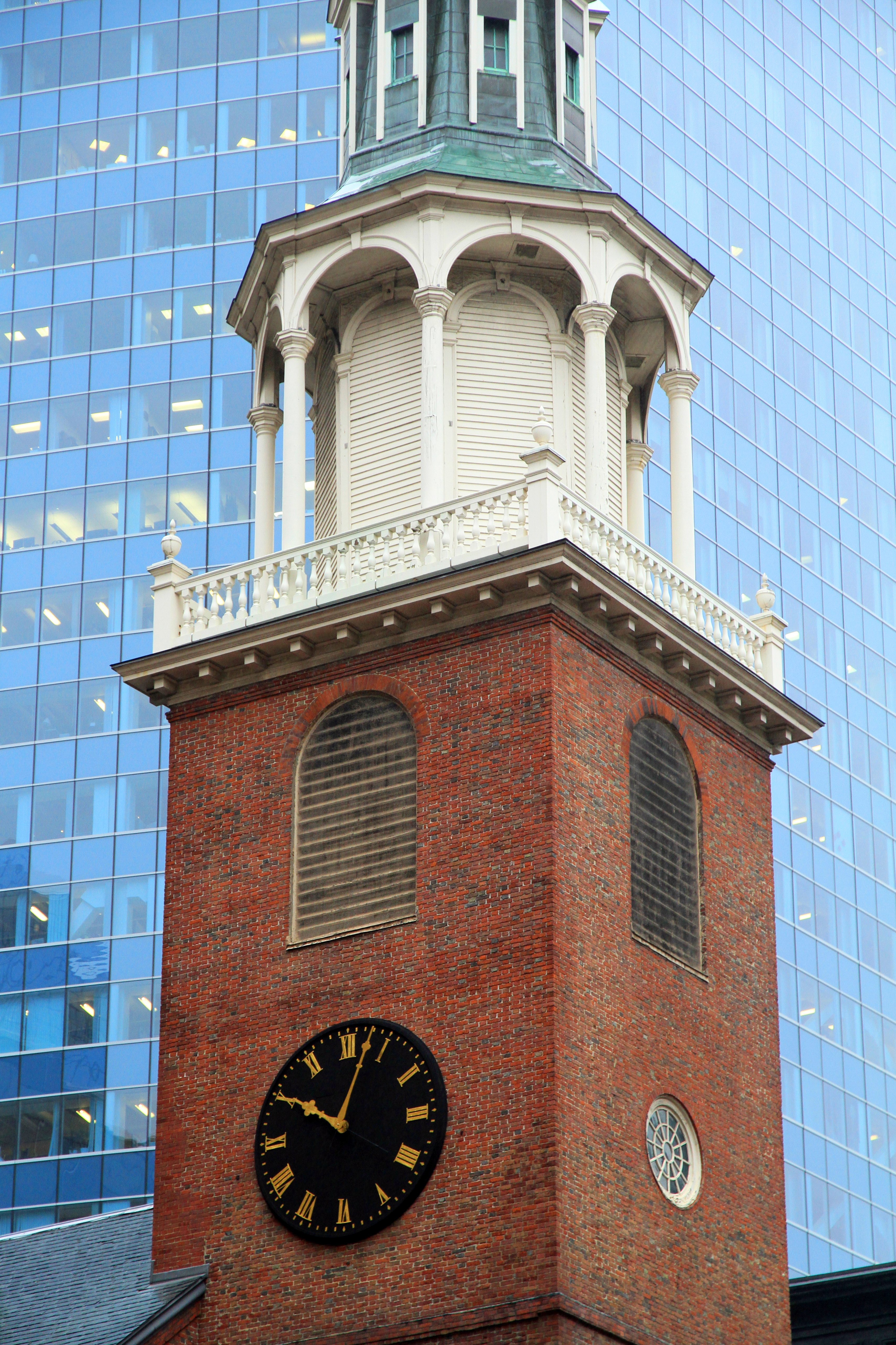 Old South Meeting House